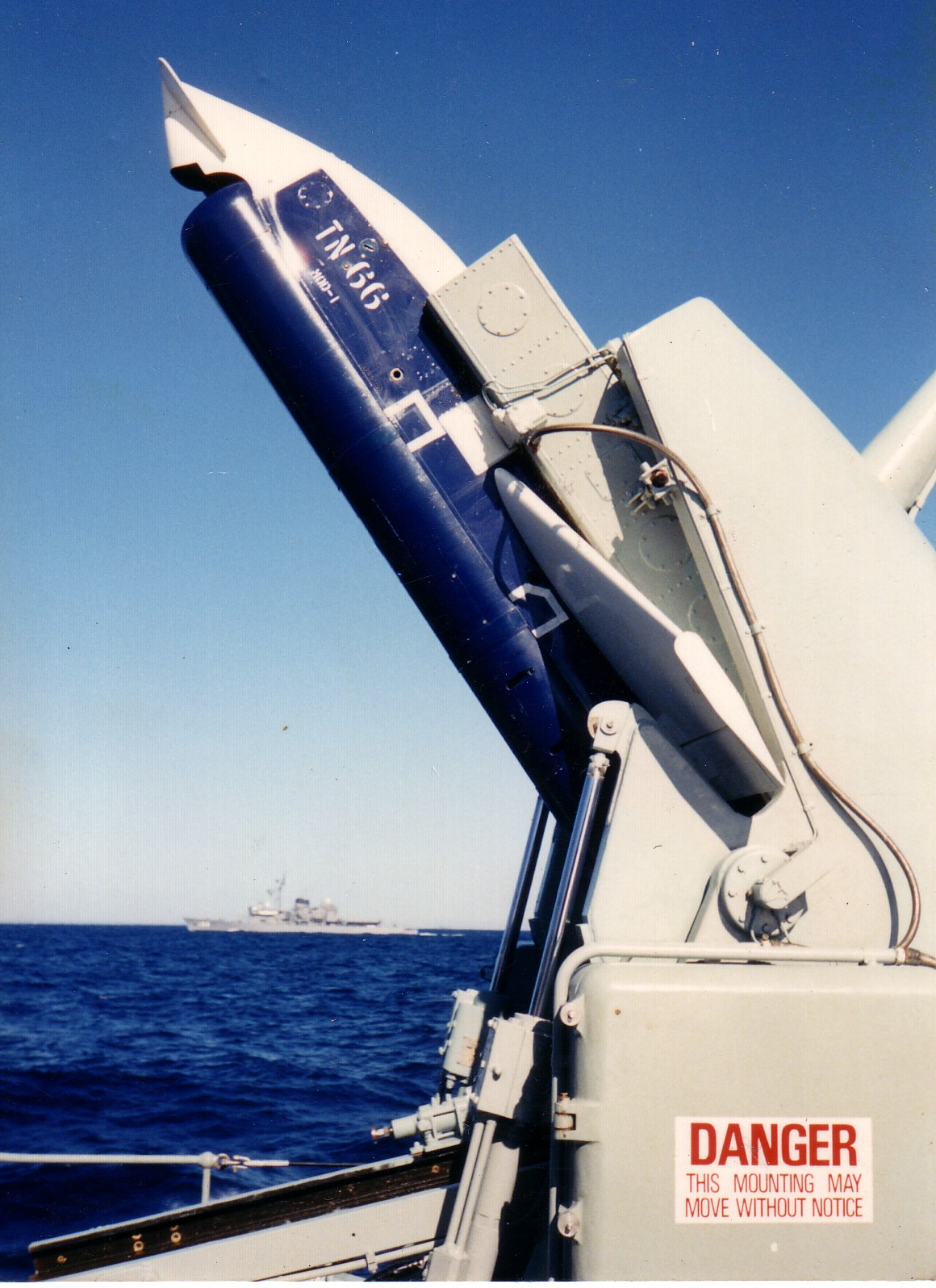 Ikara test missile onboard HMAS Stuart (DE-48) off the New South Wales coast. The ship in the distance is a Japanese Guided Missile Destroyer, visiting for Australia's Bicentennial Naval Salute/Bicentennial Naval Review in September/October 1988.